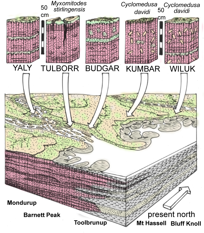 A variety of paleosols are association with the trace fossil Myxomitodes, but these trails occur in weekly developed profiles.